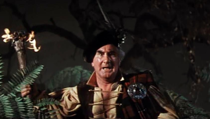 Tudor Owen in Brigadoon - trailer (cropped screenshot)